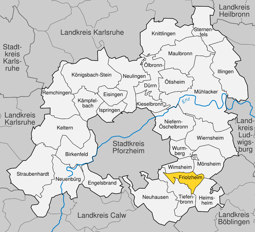 position of Friolzheim within distict of Enzkreis, Baden-Württemberg, Germany